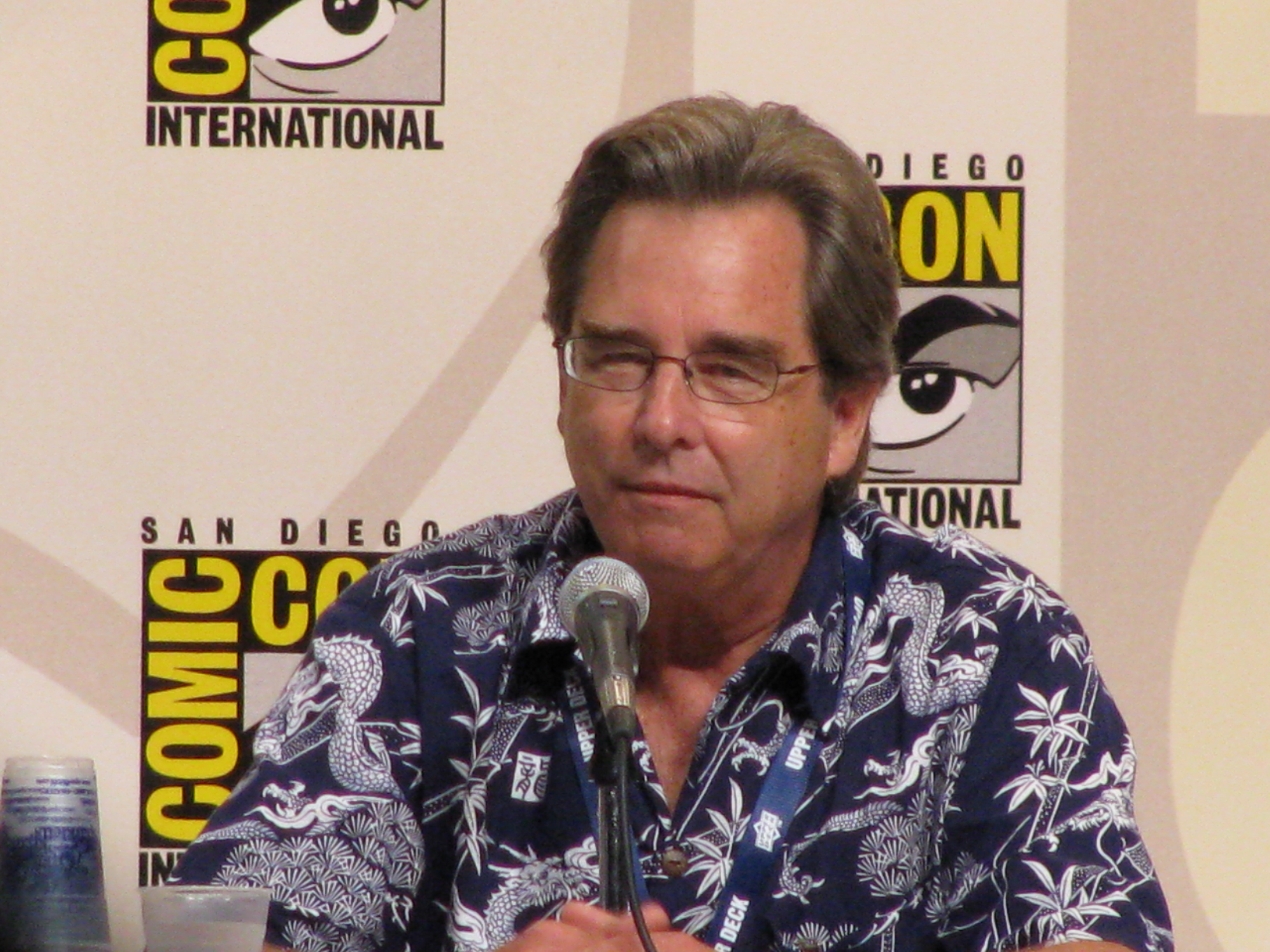 Beau Bridges at Comic Con 2008